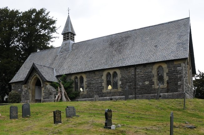 Crpped image of St Winifred's church, Gwytherin, Gwytherin, Wales